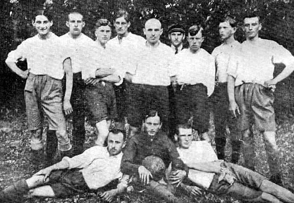 Football section of polish sports club Resovia (of Rzeszów) in 1920